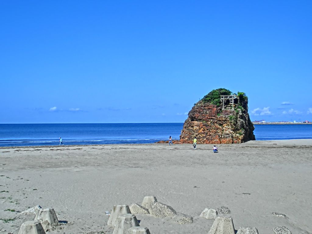 Inasa Beach in Shimane Prefecture, Japan